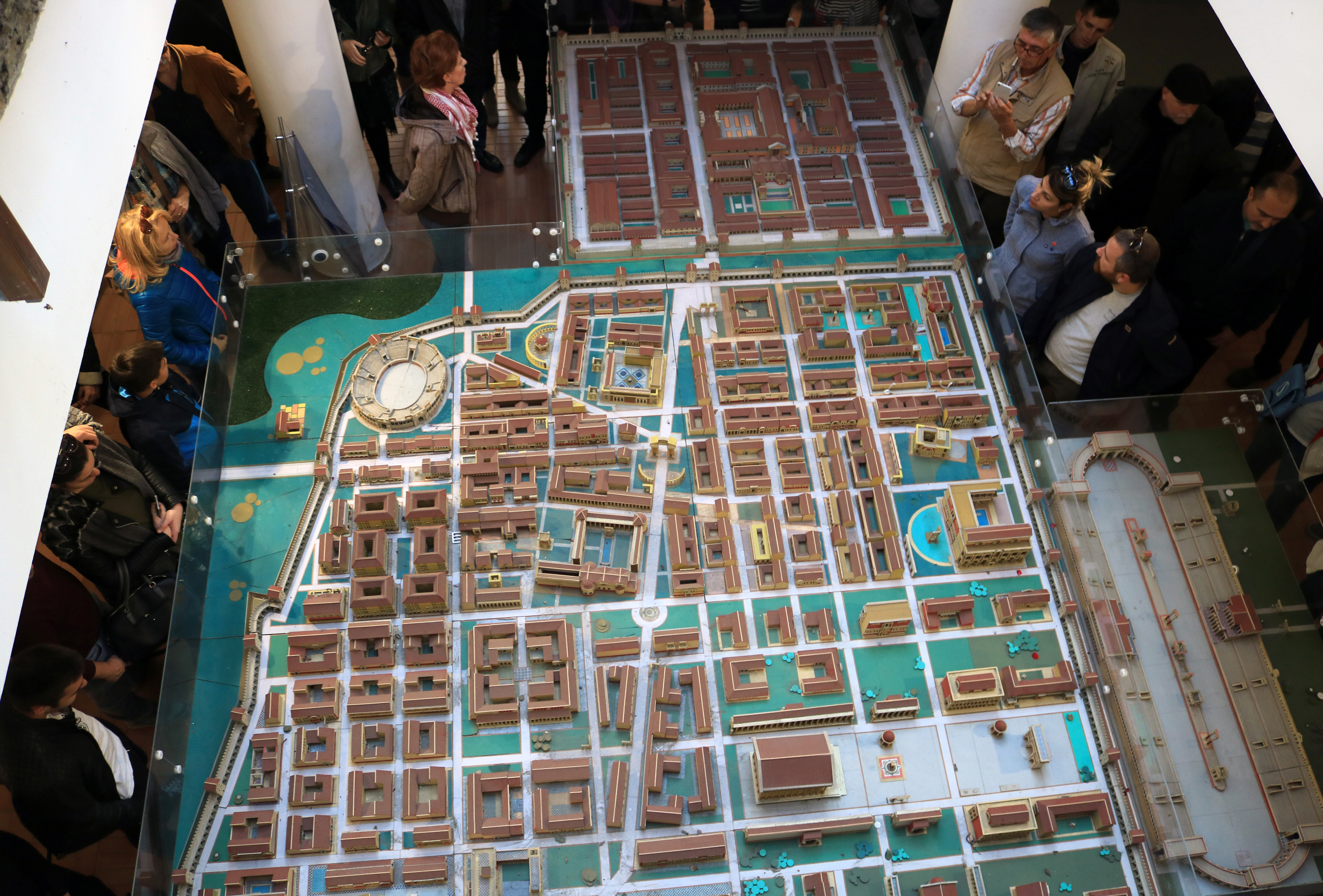 A model of Viminacium. Srpski (latinica): Maketa Viminacijuma